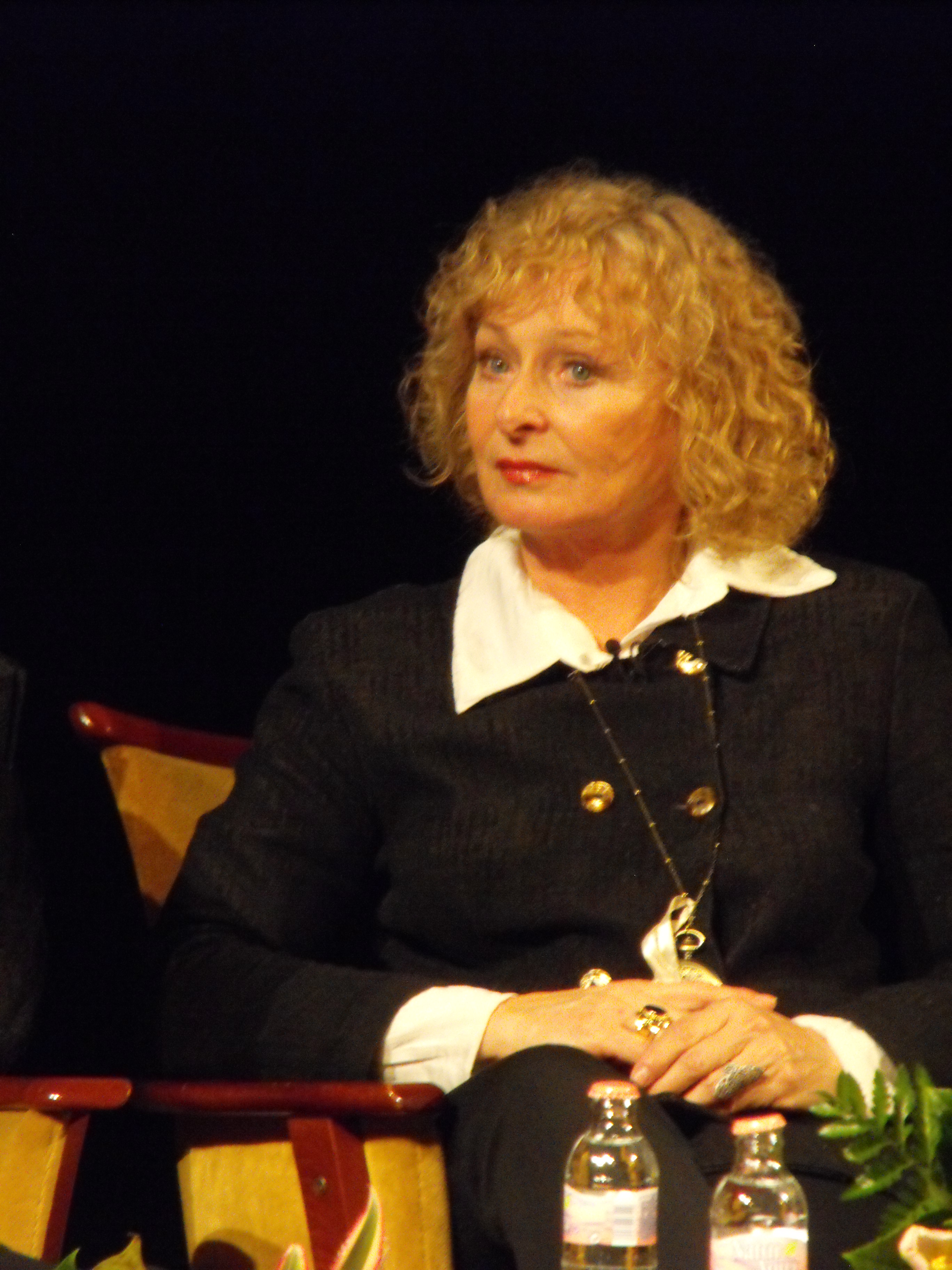 Ildikó Bánsági Hungarian actress in the Hagymaház (~Onion House), the local theatre of Makó, Hungary, after receiving the Páger Award.